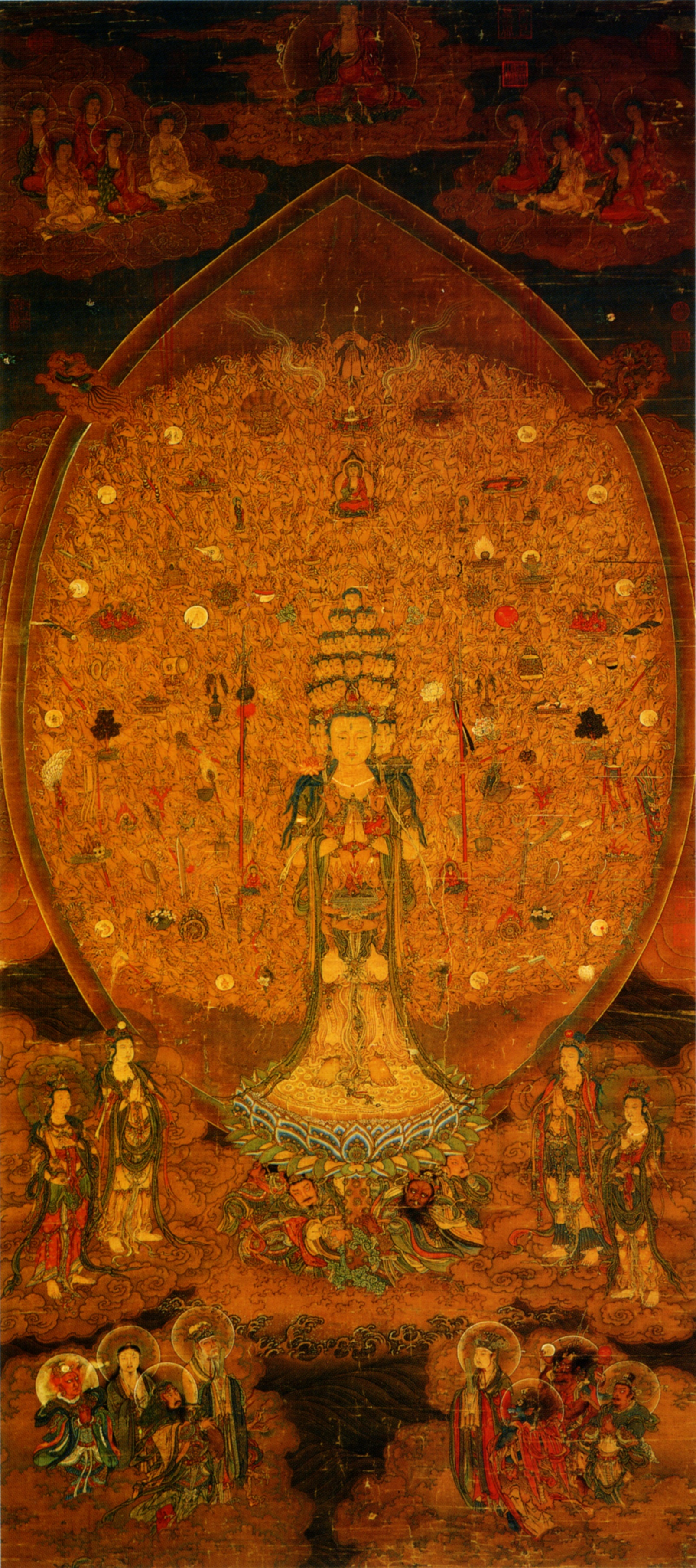 Guan Yin represented with several bodhisattva heads topped by a Buddha head. the figure is standing on a lotus pedestal held up by four heavenly kings. A pair of bodhisattva attendants flank the figure on each side. Seated Buddhas are in clouds above the figure. Eight Deva kings appear below the figure. Ink and colors on silk. 79.2 x 176.8 cm. Museum item 02.08.00157